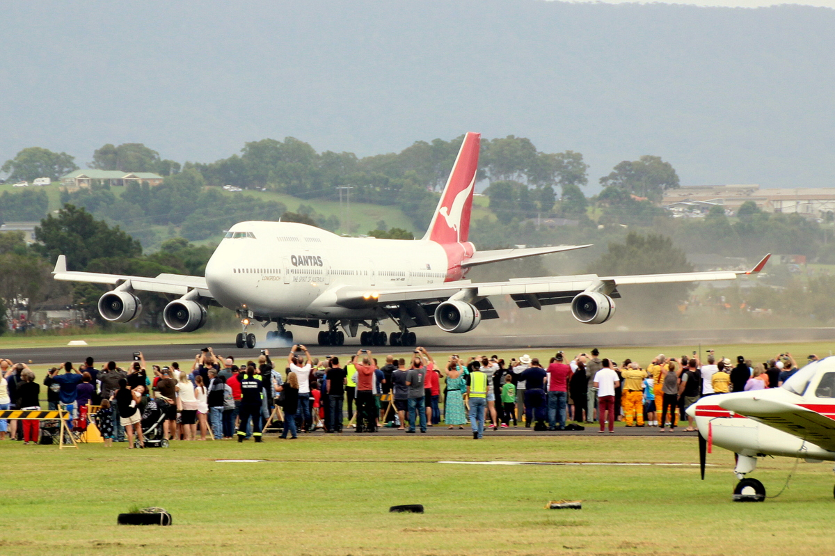 Qantas Boeing 474-400 City of Canberra lands for the last time, on its retirement to a museum.